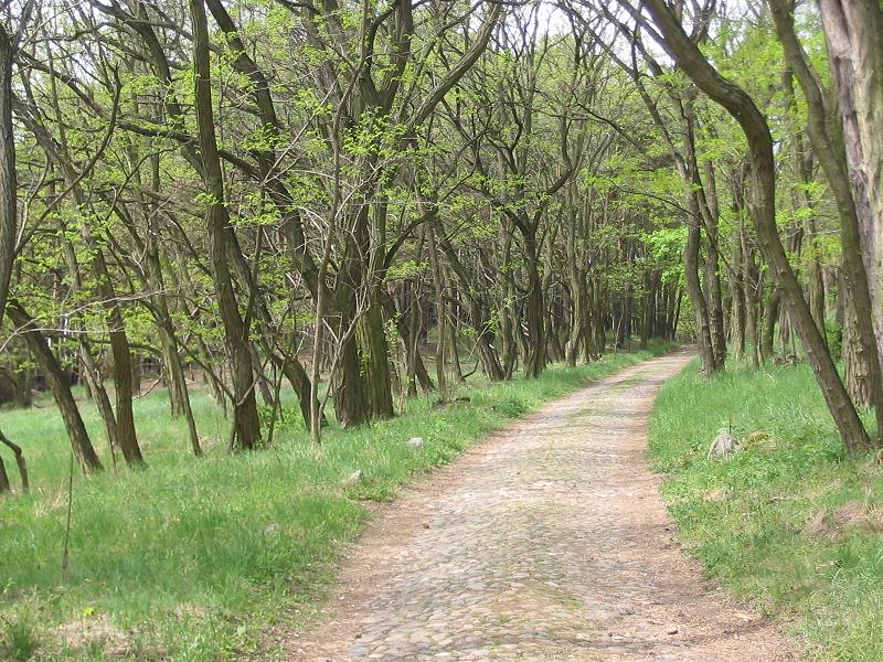 En route to Galgenberg (gallows hill, 118 metres) in the landscape High Fläming nearby Lütte, a village (part) of the town Belzig in Brandenburg